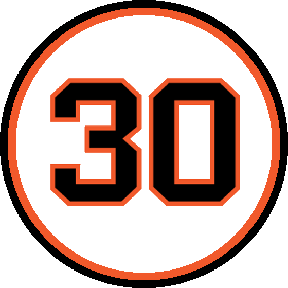 SF Giants retired number placard as shown inside stadium